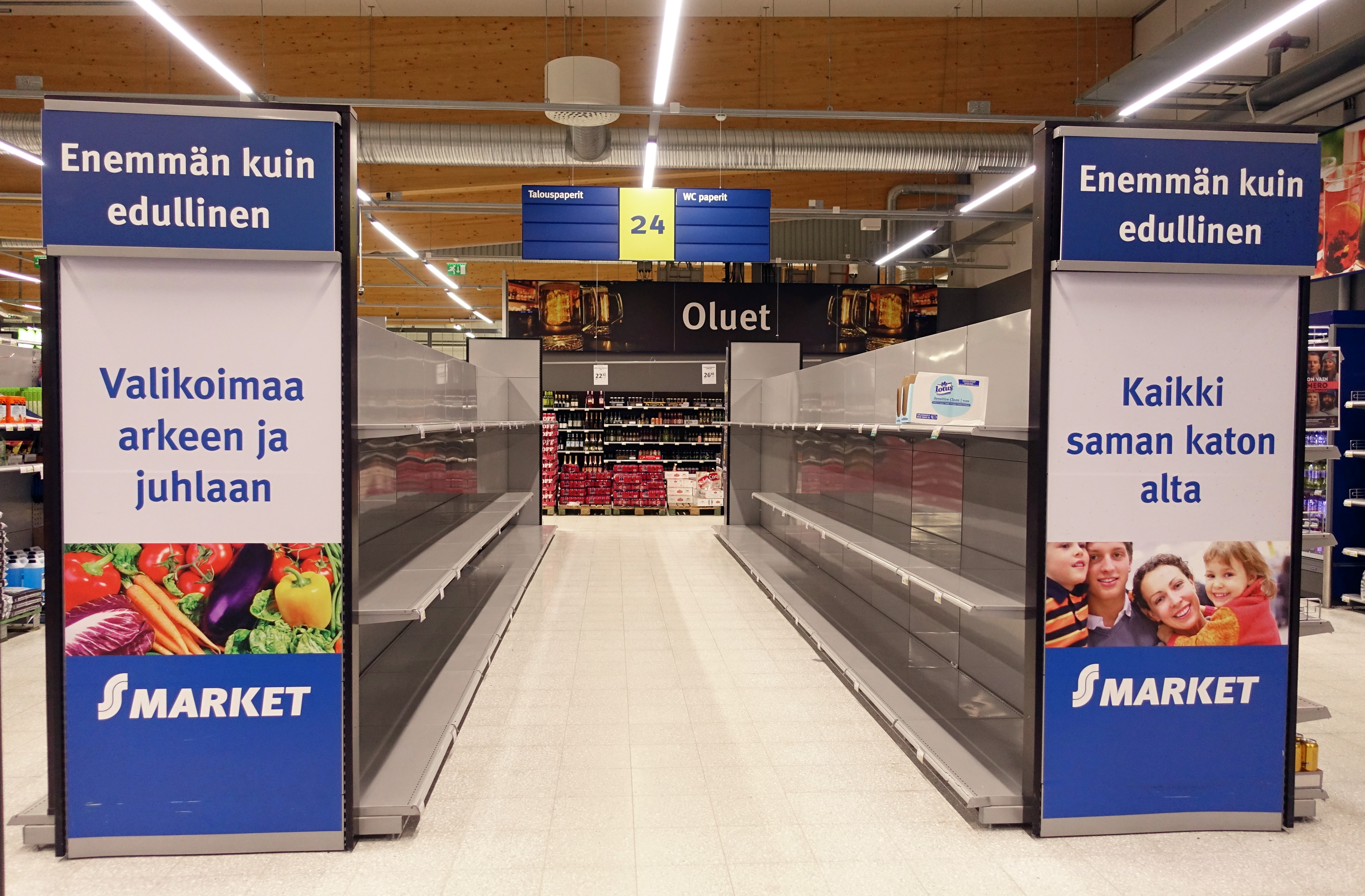 Toilet paper and kitchen paper shortage during coronavirus pandemic, 14th March 2020. S-market Vaajala, Vaajakoski, Jyväskylä.